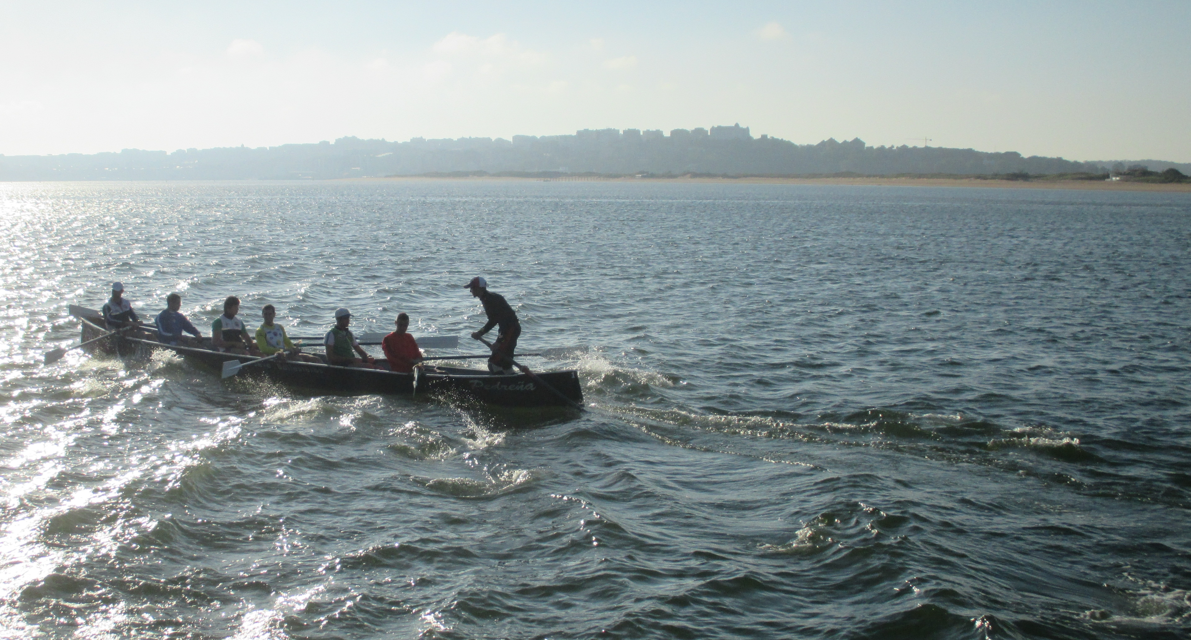 Training of trainera of Pedreña in the Bay of Santander, May 2015